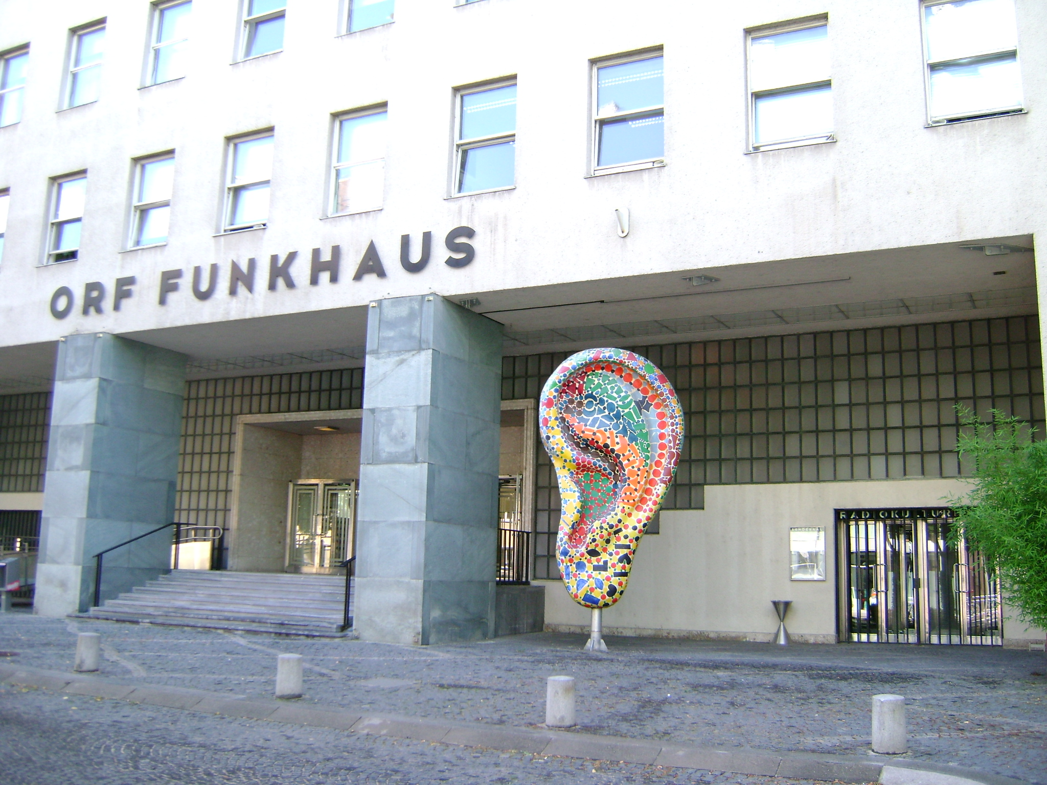 Radiokulturhaus, Vienna, Entrance